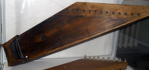 Novaday reconstruction of "Kantele" by Ales Chumakou, Belarus Беларуская (тарашкевіца): Сучасная рэканструкцыя (Майстар - Алесь Чумакоў) 13-ці струнных кантэле, Беларусь